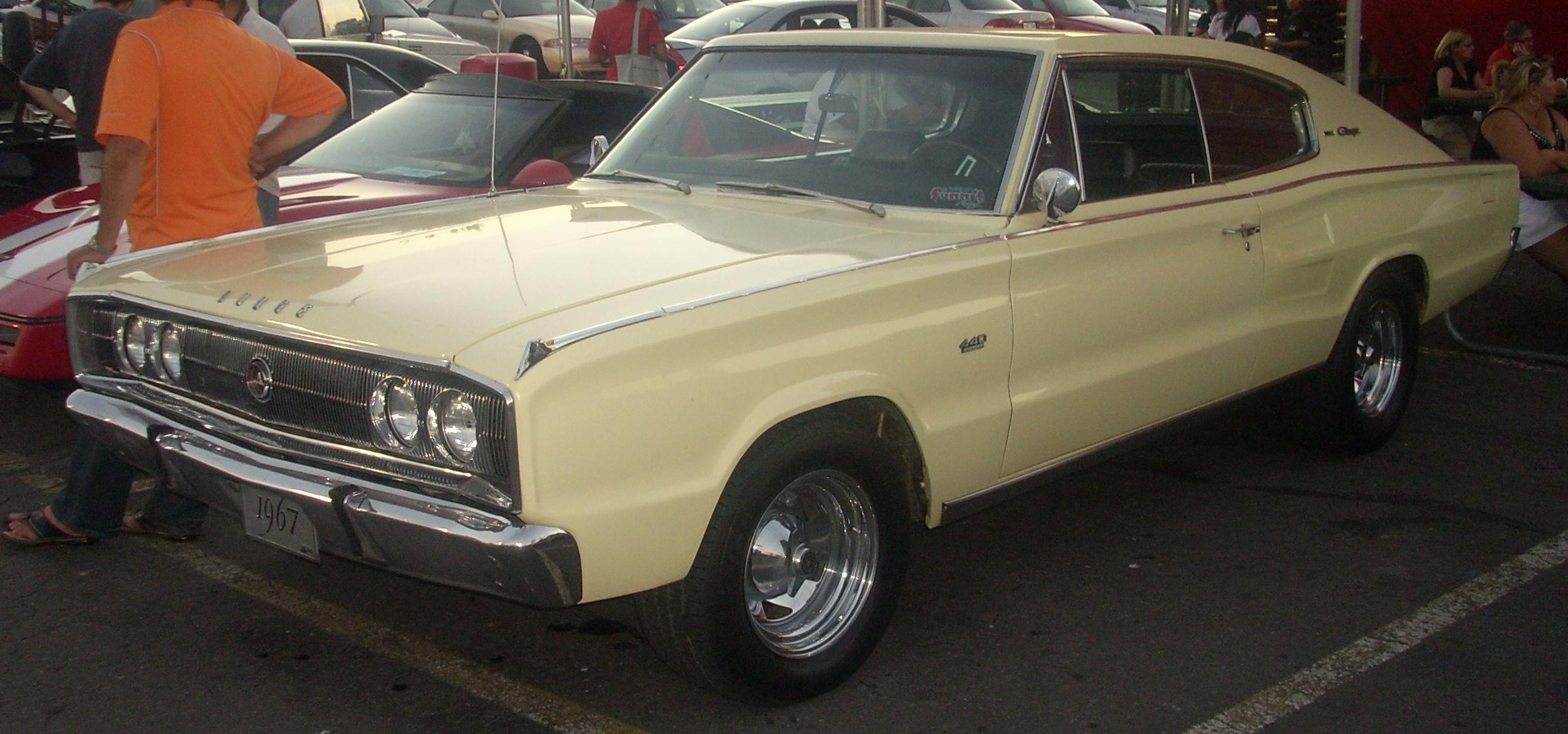 1967 Dodge Charger photographed in Montreal, Quebec, Canada at Gibeau Orange Julep.